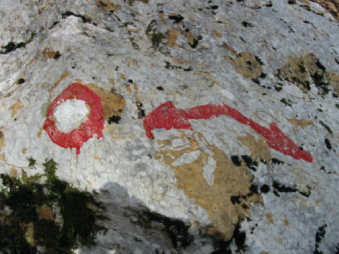 Knafelc trail blaze with a double arrow, Slovenia. Image taken by: User:Eleassar.